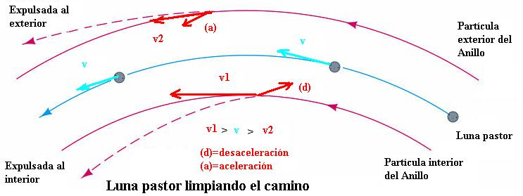 See below.